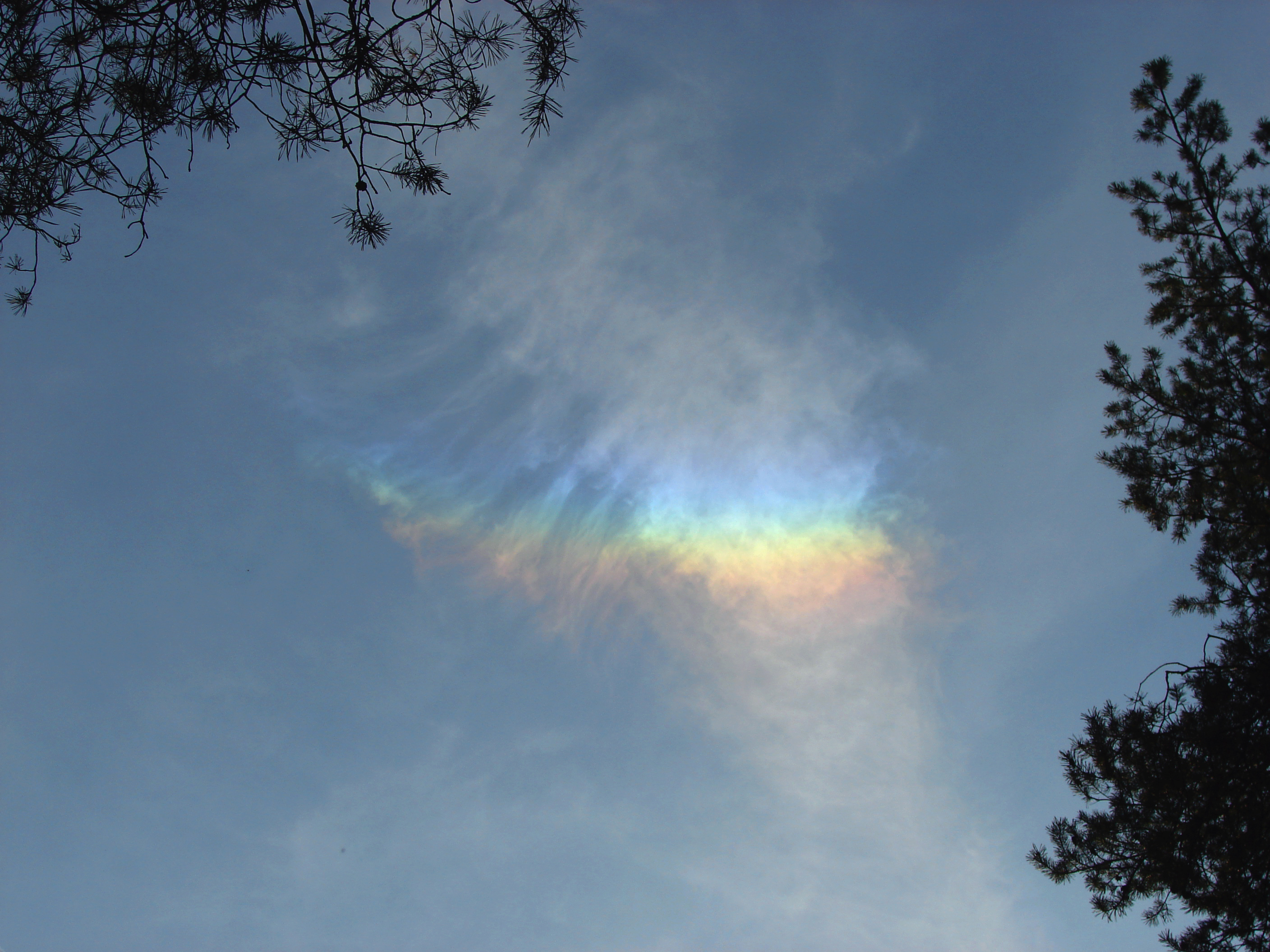 Halo in cirrocumulus near the city of Łódź, Poland